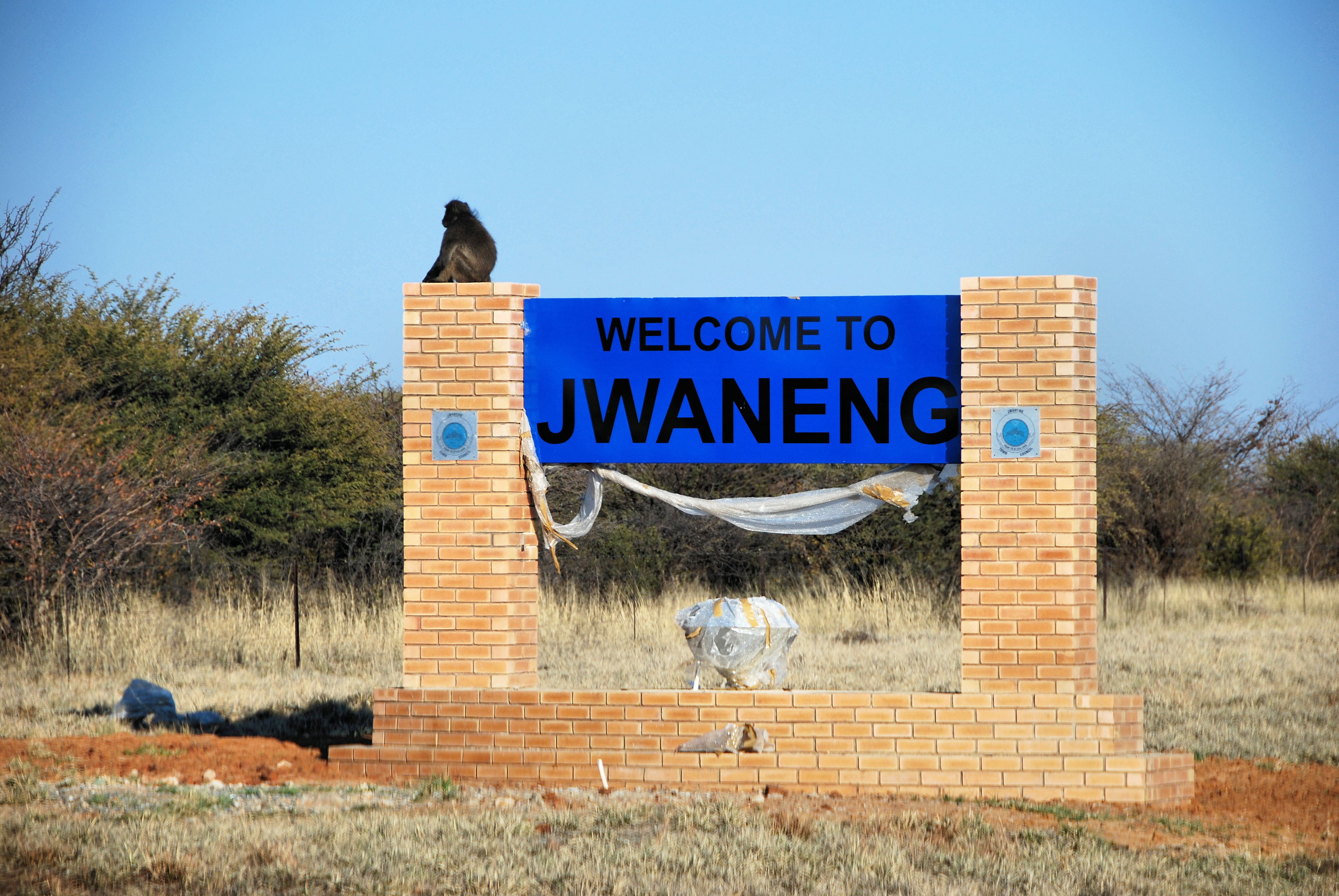 Sign board in Jwaneng, BotswanaAfrikaans: Naambord in Jwaneng, Botswana